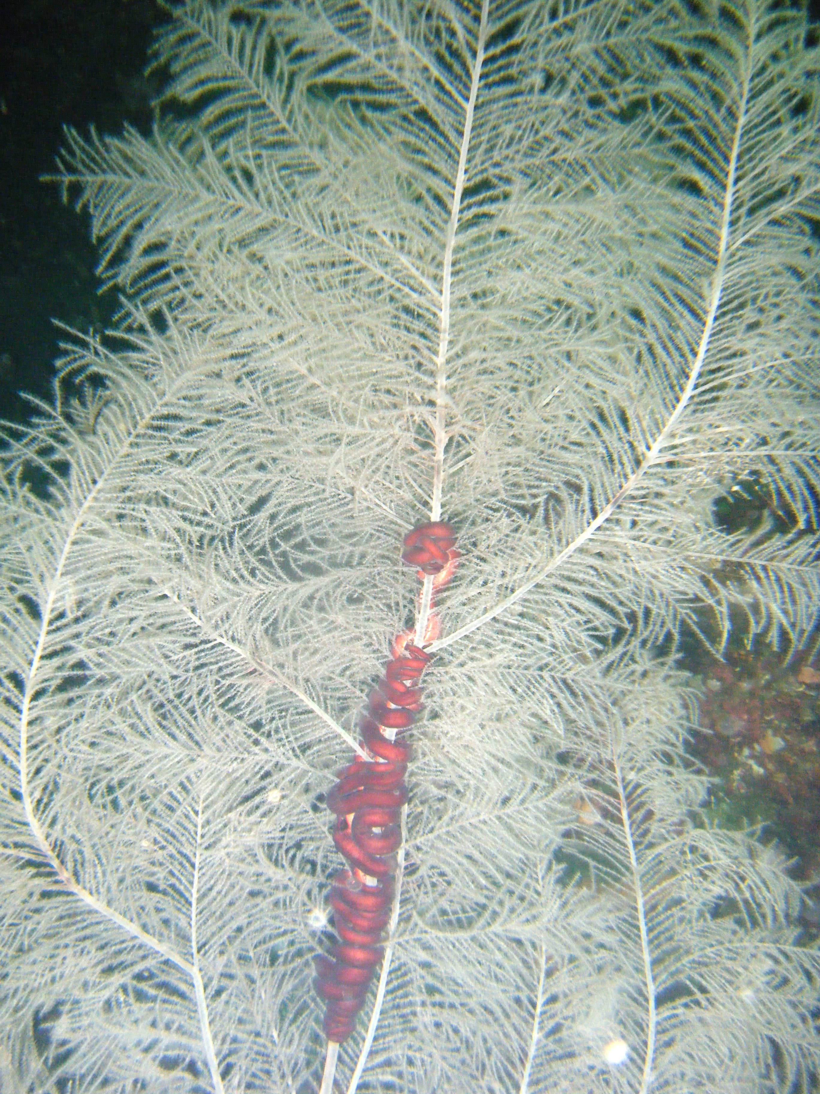 Black coral (Antipathella fiordensis) and a sea star found at "the gut" dive site, Doubtful Sound, New Zealand